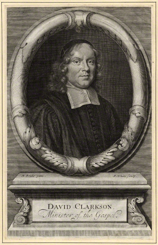 Portrait of David Clarkson (1622–1686), English ejected minister.